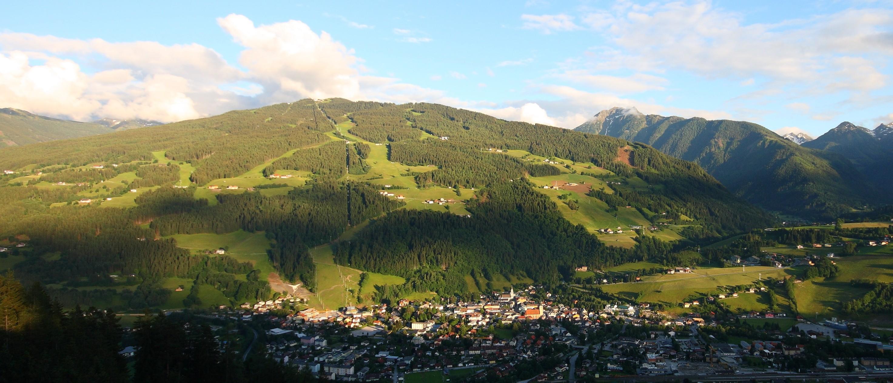 Schladming, Styria, Austria